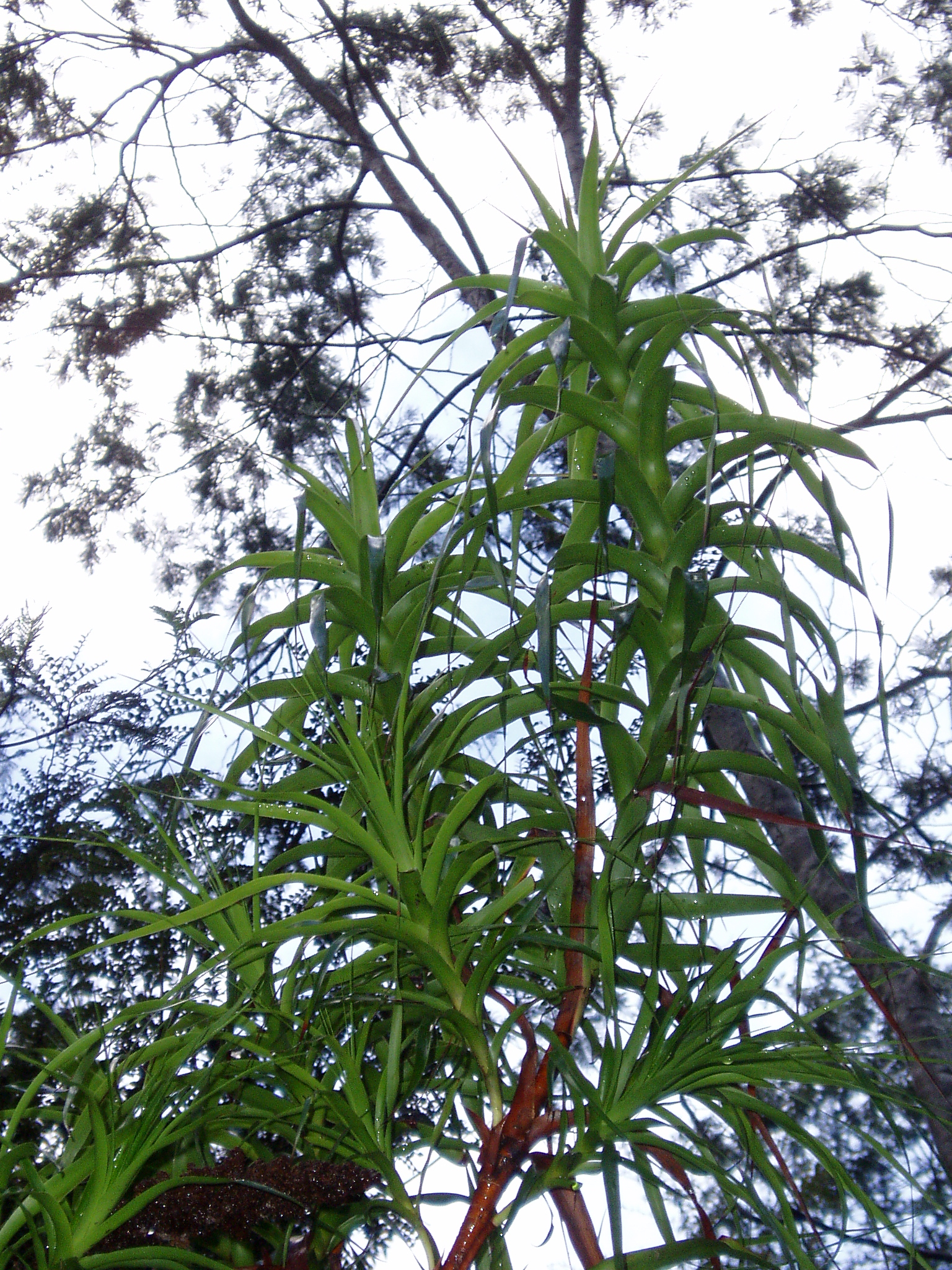 Richea dracophylla, Snug river, southern Tasmania